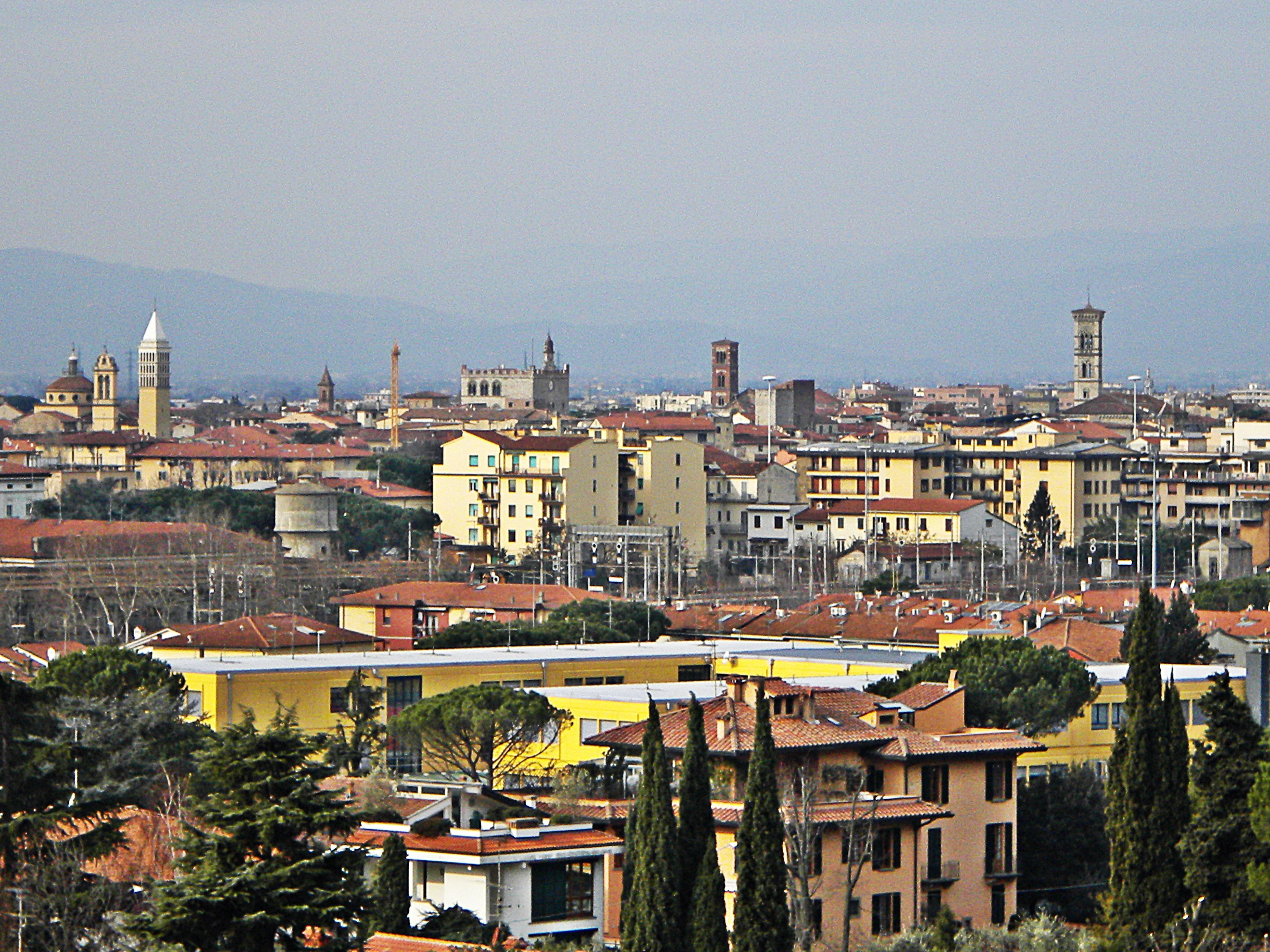 Prato view